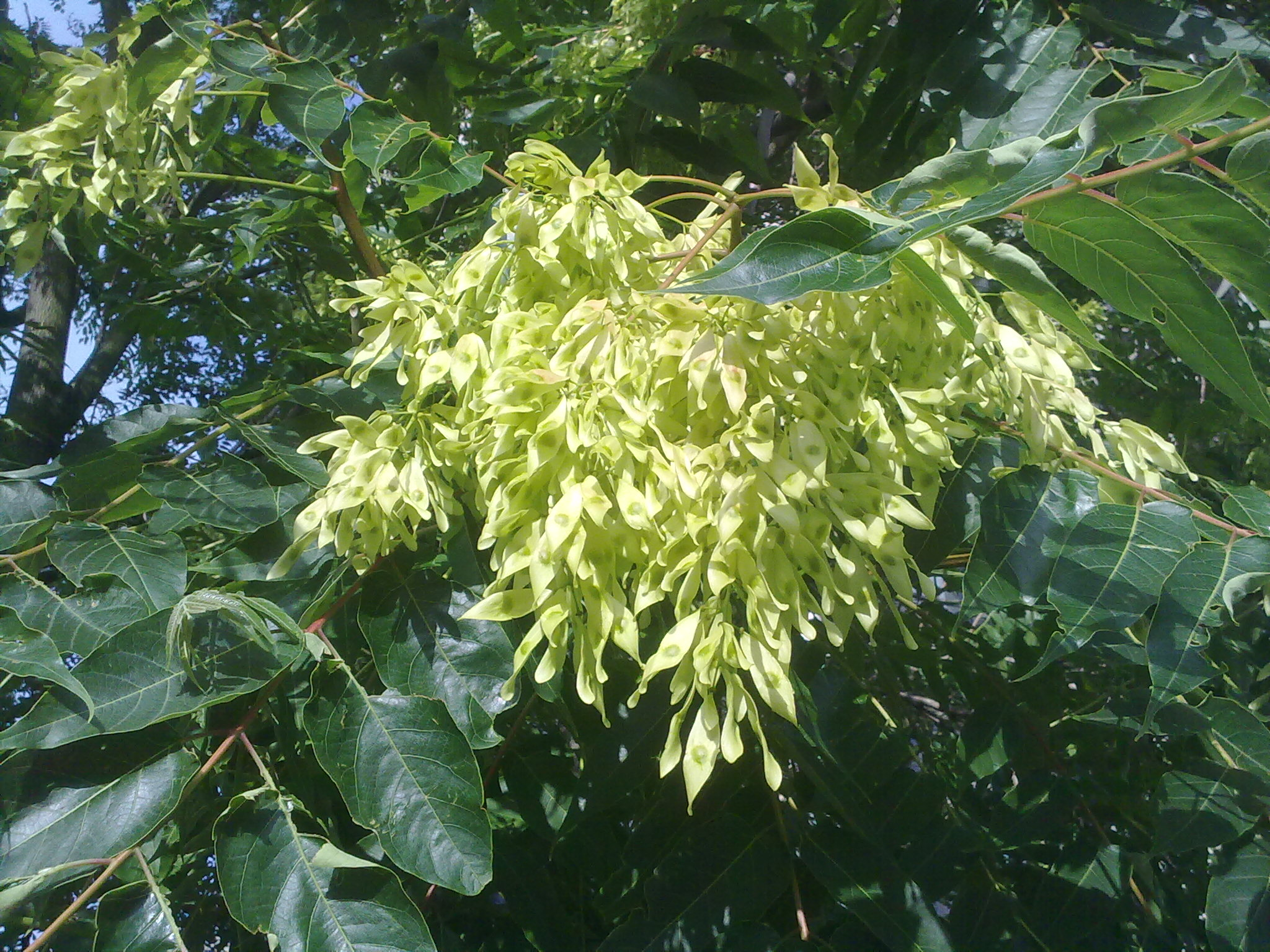 Heaventree seeds